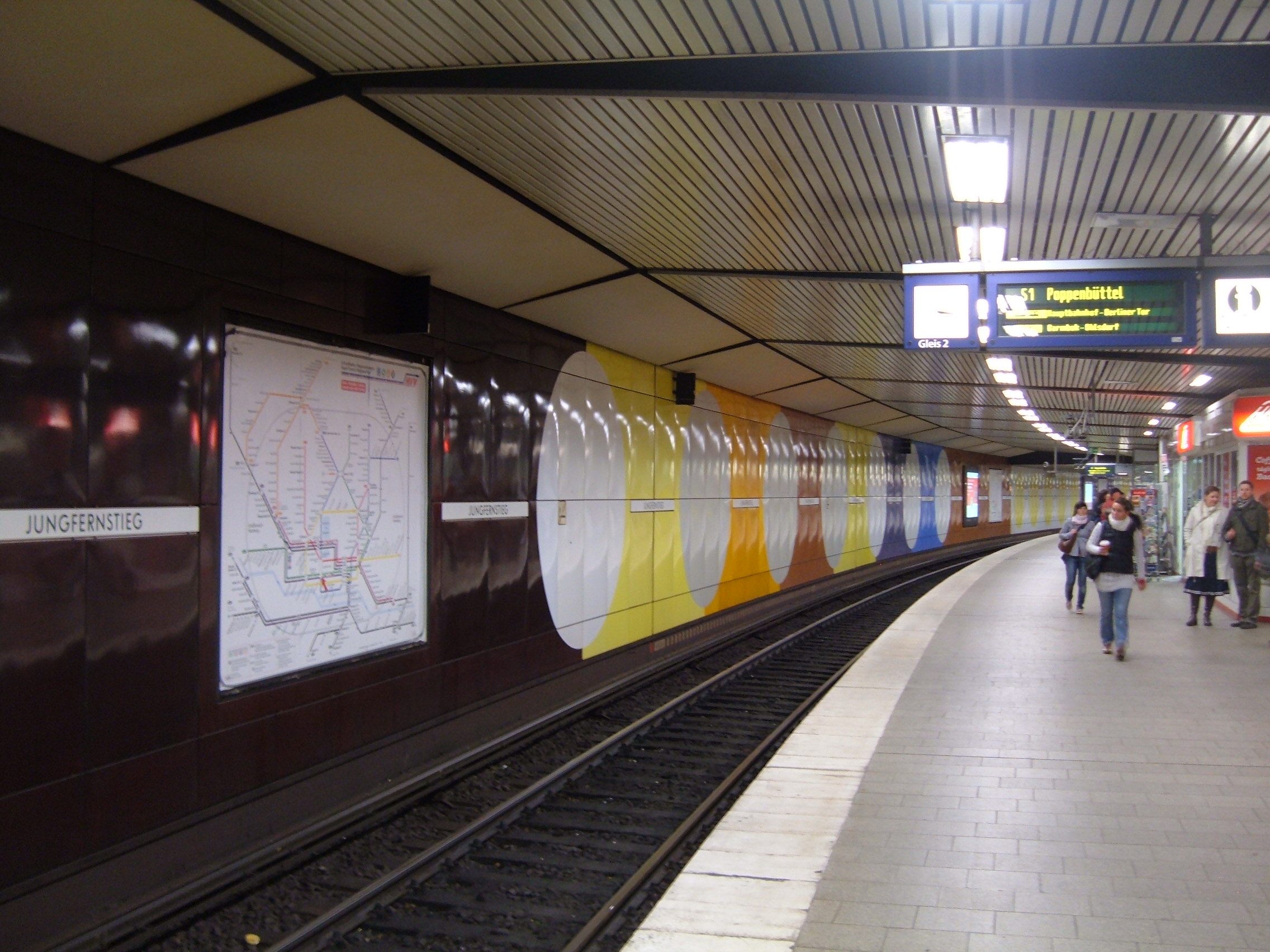 S-Bahn platform at Jungfernstieg rapid transit station in Hamburg, Germany.